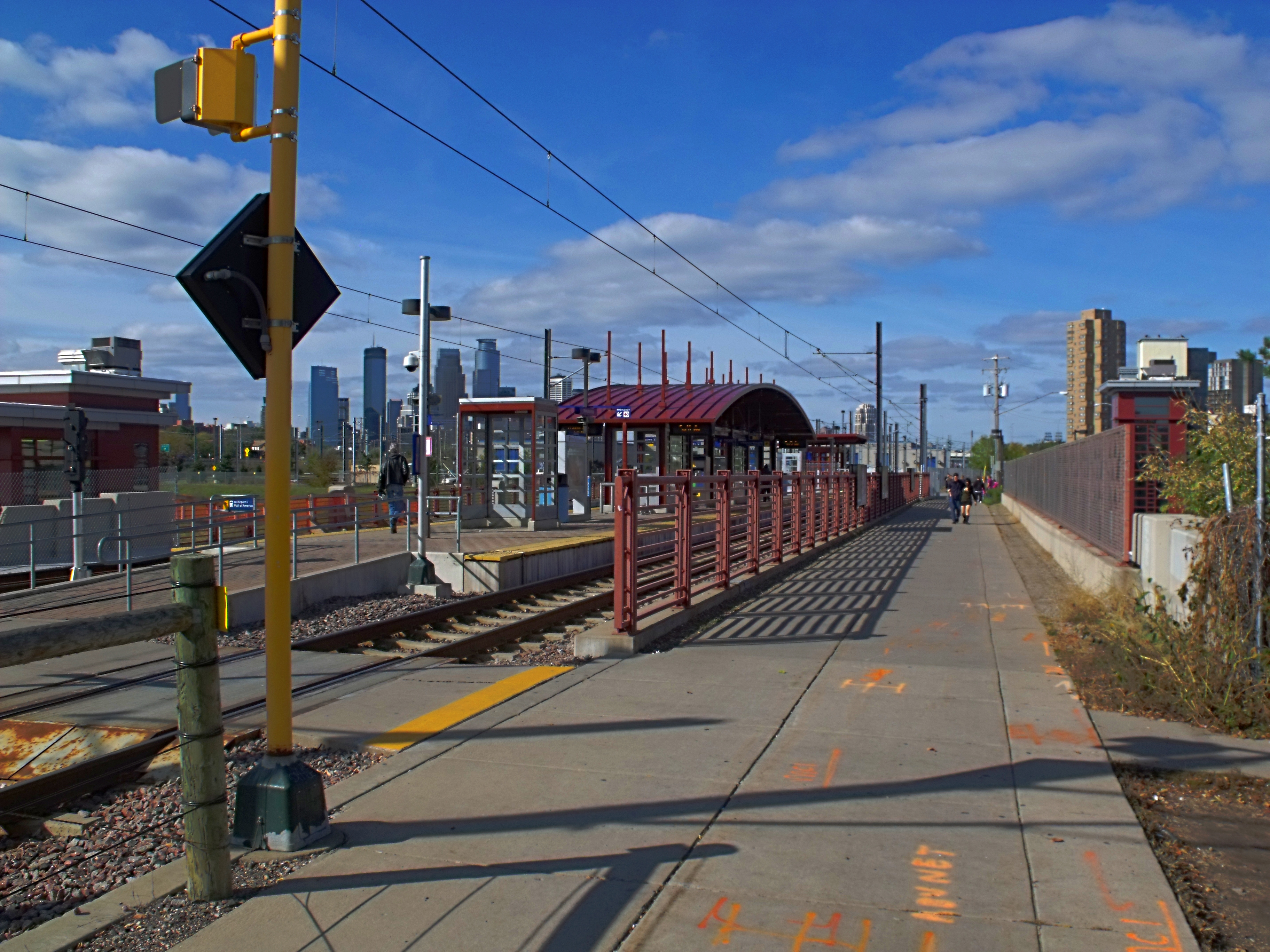 The Franklin Ave Station of the Hiawatha Line in Minneapolis, Minnesota, USA.